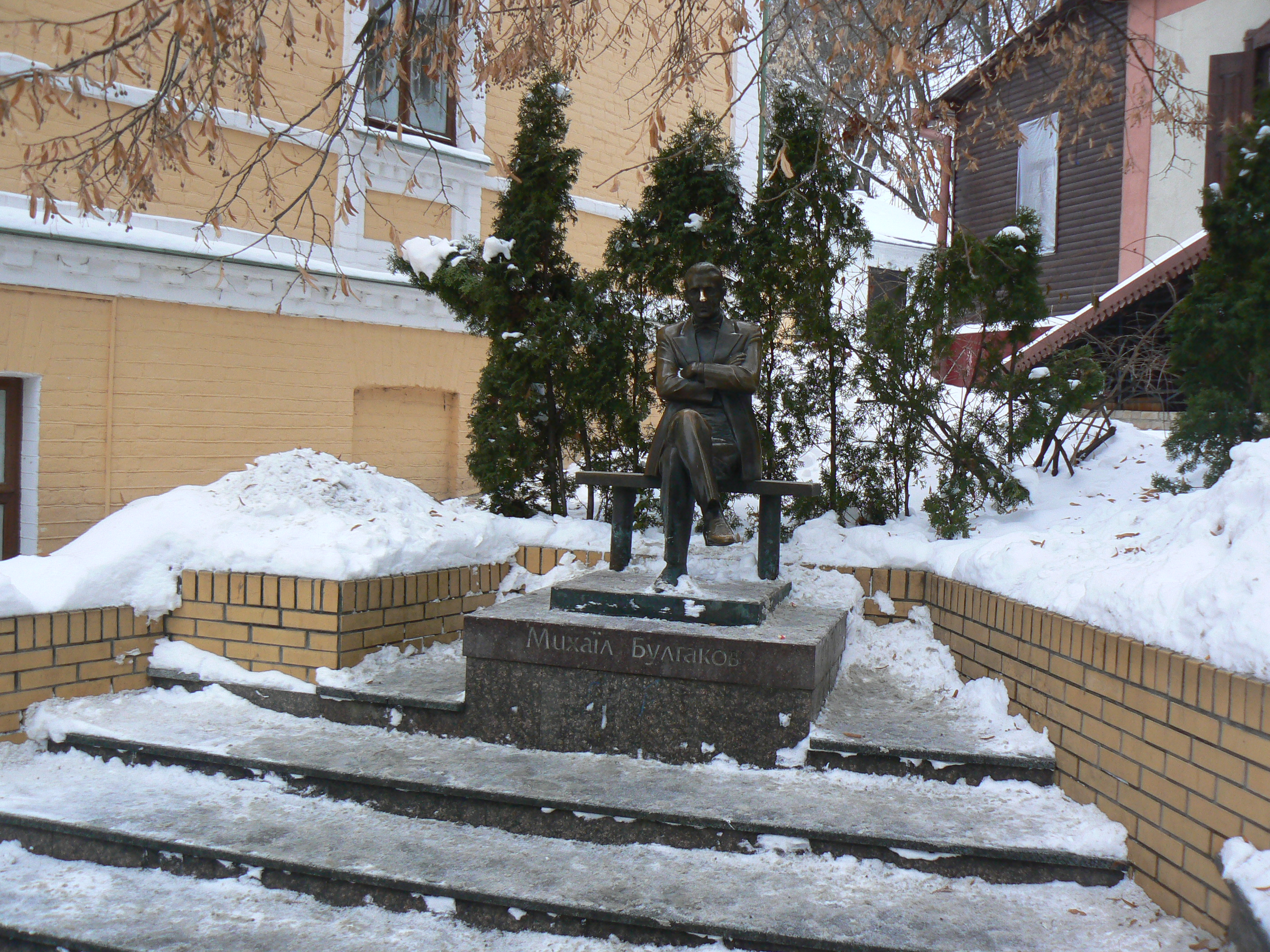 Mikhail Bulgakov monument in Kiev.